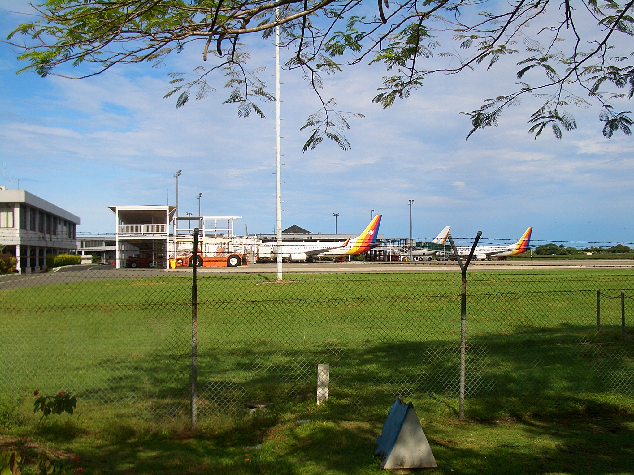 Air Pacific planes in Nadi Airport